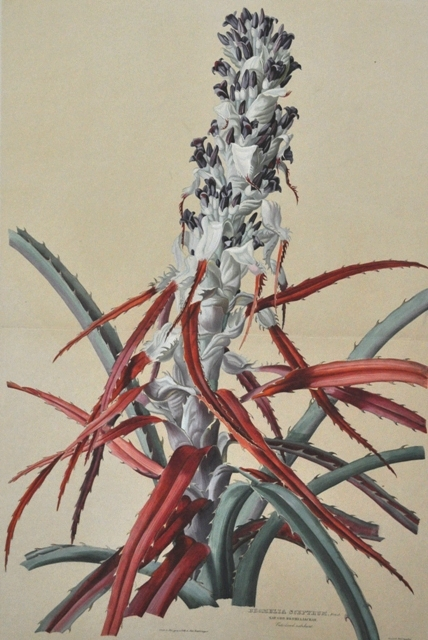 Artist: Anton Hartinger, Austria Medium: Colored Lithograph, with Hand Coloring Year: 1844-1860